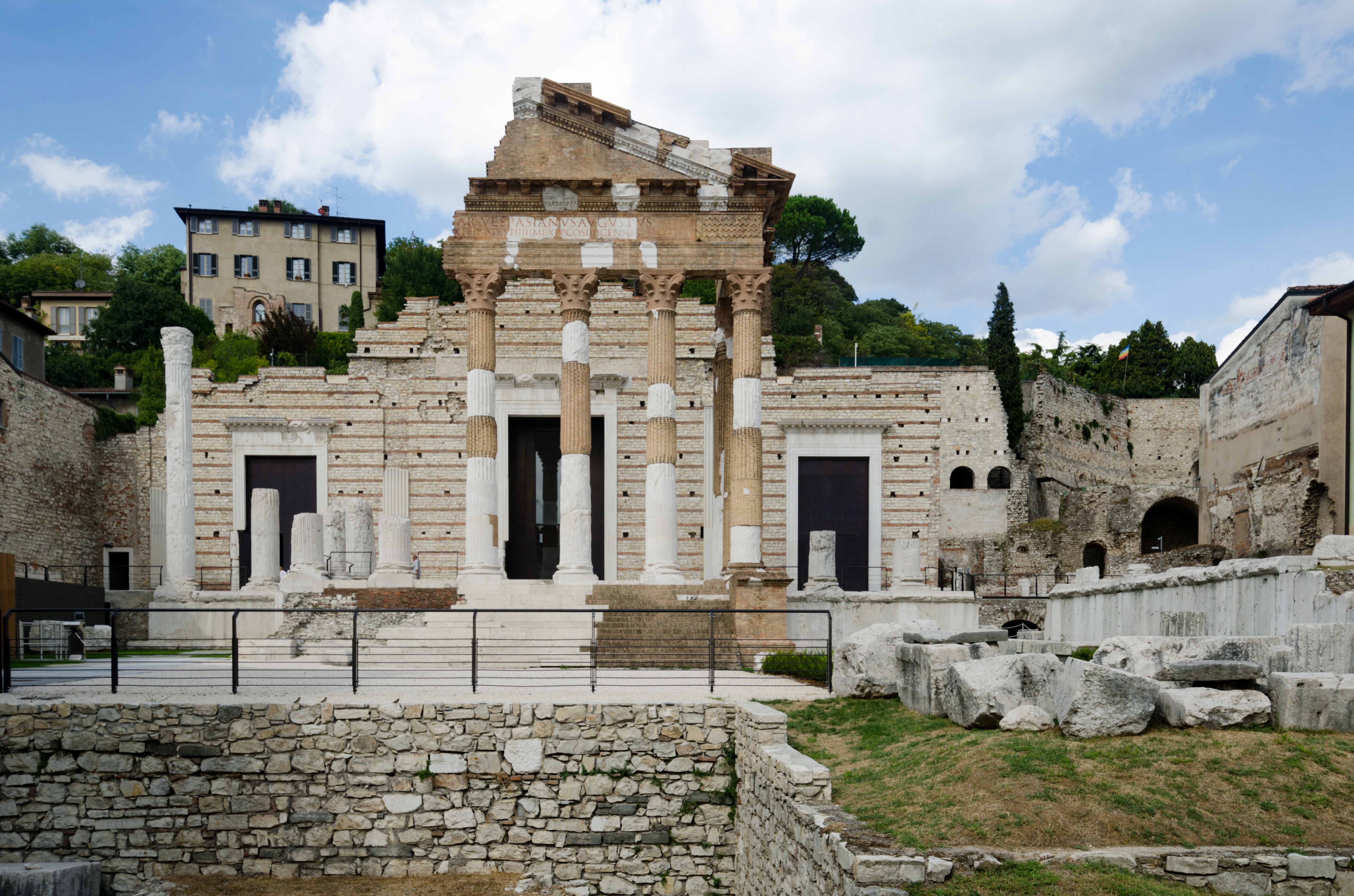 The Capitolium in Brescia, Italy, a UNESCO World Heritage Site.